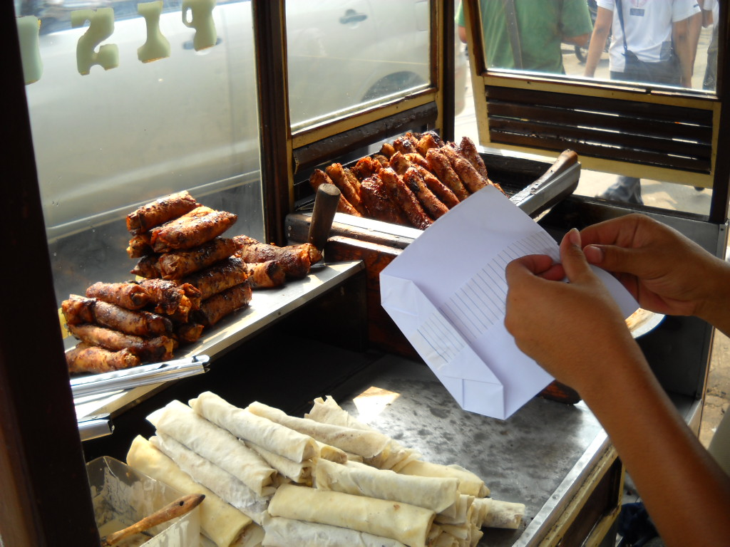 Pisang coklat stall, Jakarta.